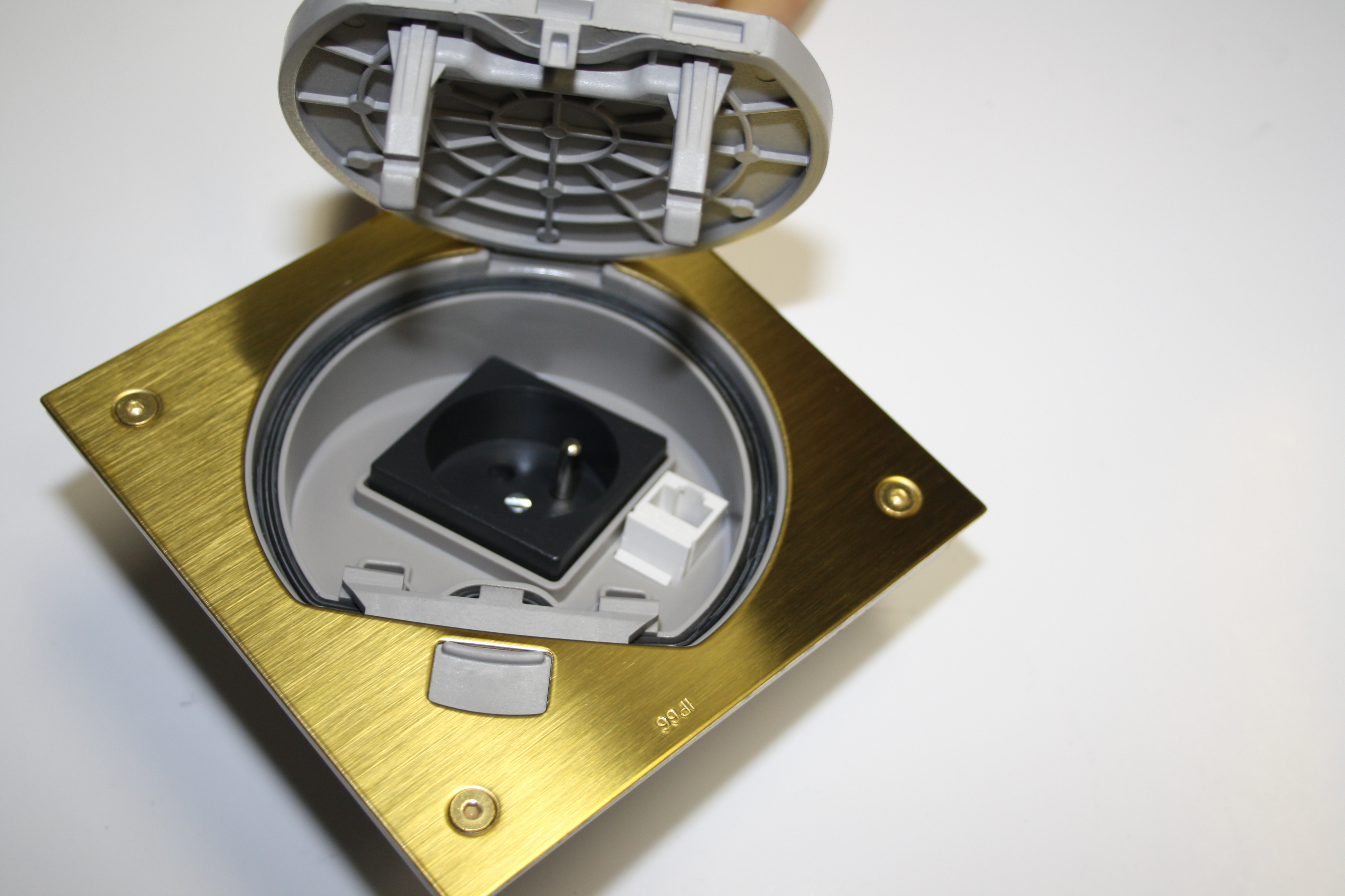 Box for mounting in furniture